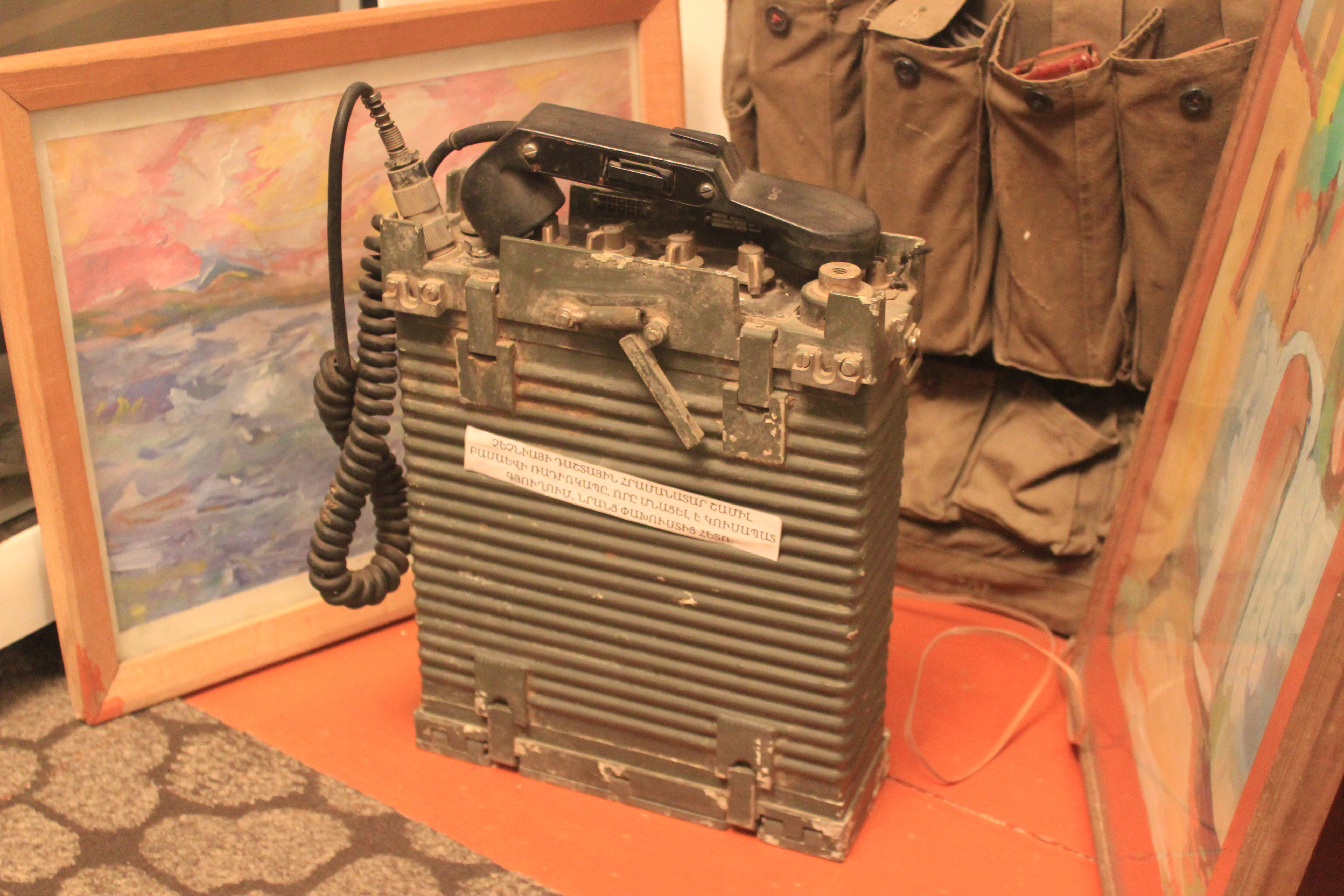 Alleged radio unit of Shamil Basayev in the Museum of Fallen Soldiers in Stepanakert, Nagorny Karabakh.